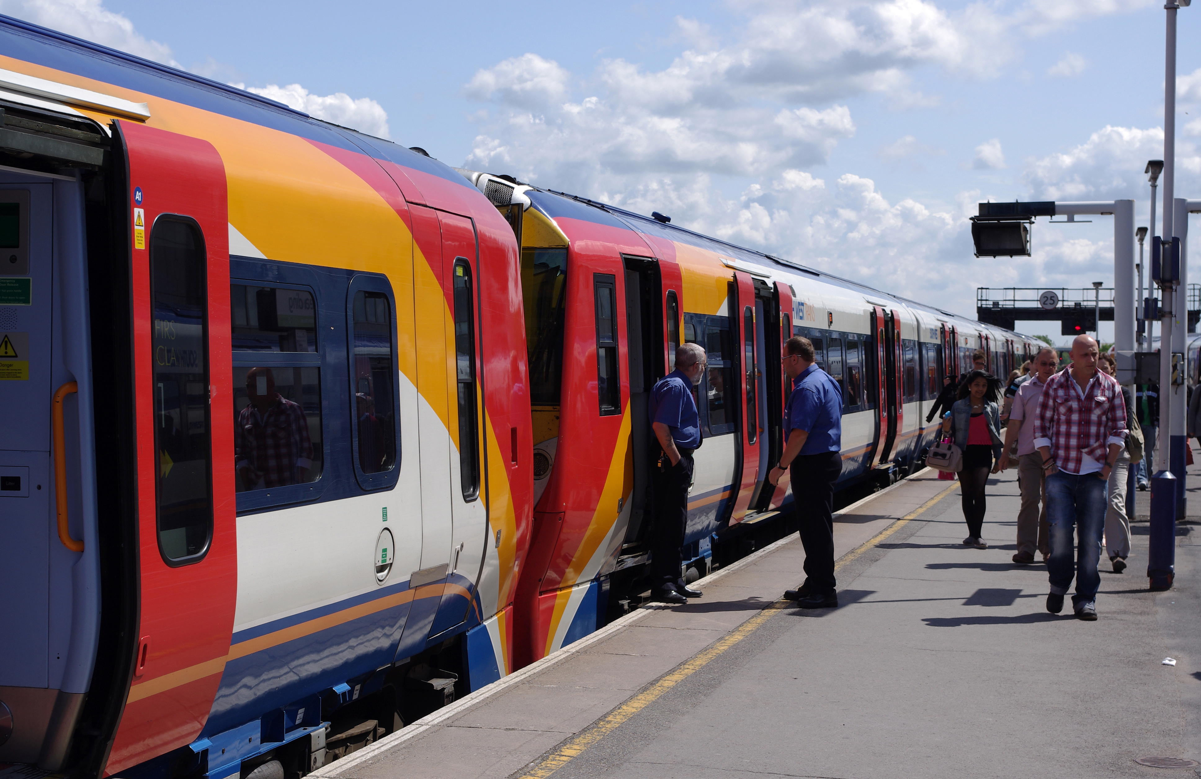 South West Trains Juniper EMUs 458011 and 458017 stand at Reading, waiting for departure to London Waterloo.